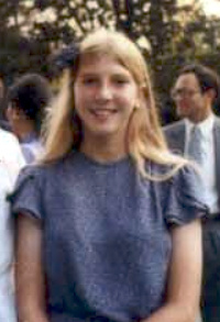 Andrea Jaeger at the White House tennis court (Washington, DC), during a reception for American Davis Cup and Wightman Cup teams, given by president Ronald Reagan, on 14 September 1981.